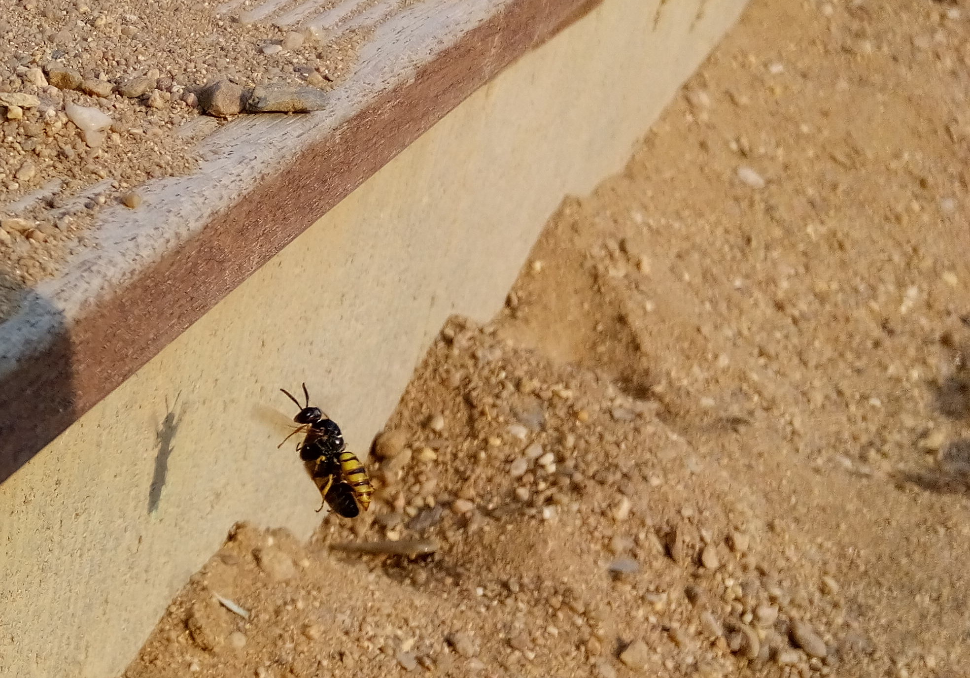 Bee Wolf (Philanthus triangulum) carrying a bee